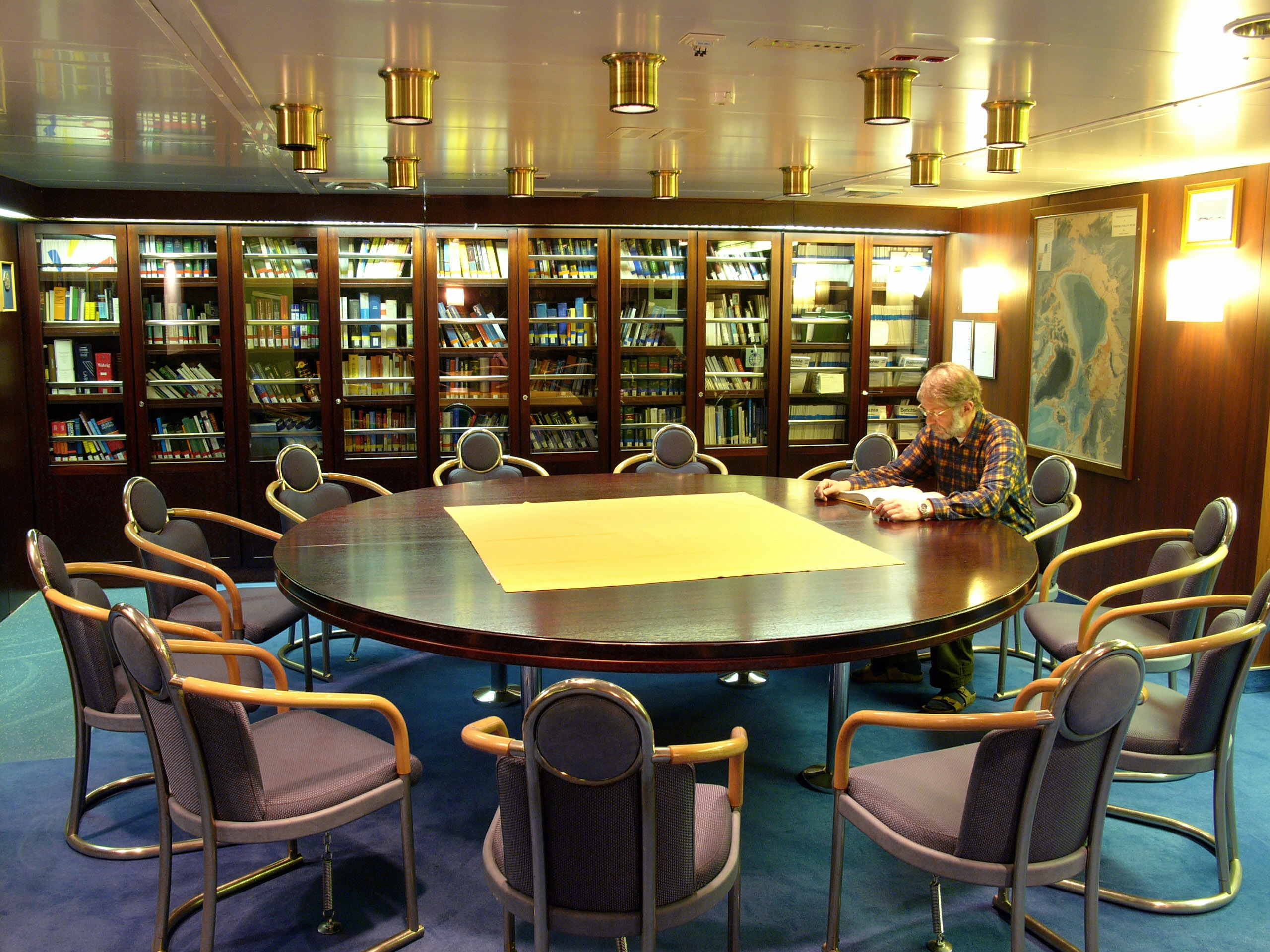 Photo from the German research vessel POLARSTERN library in the blue saloon